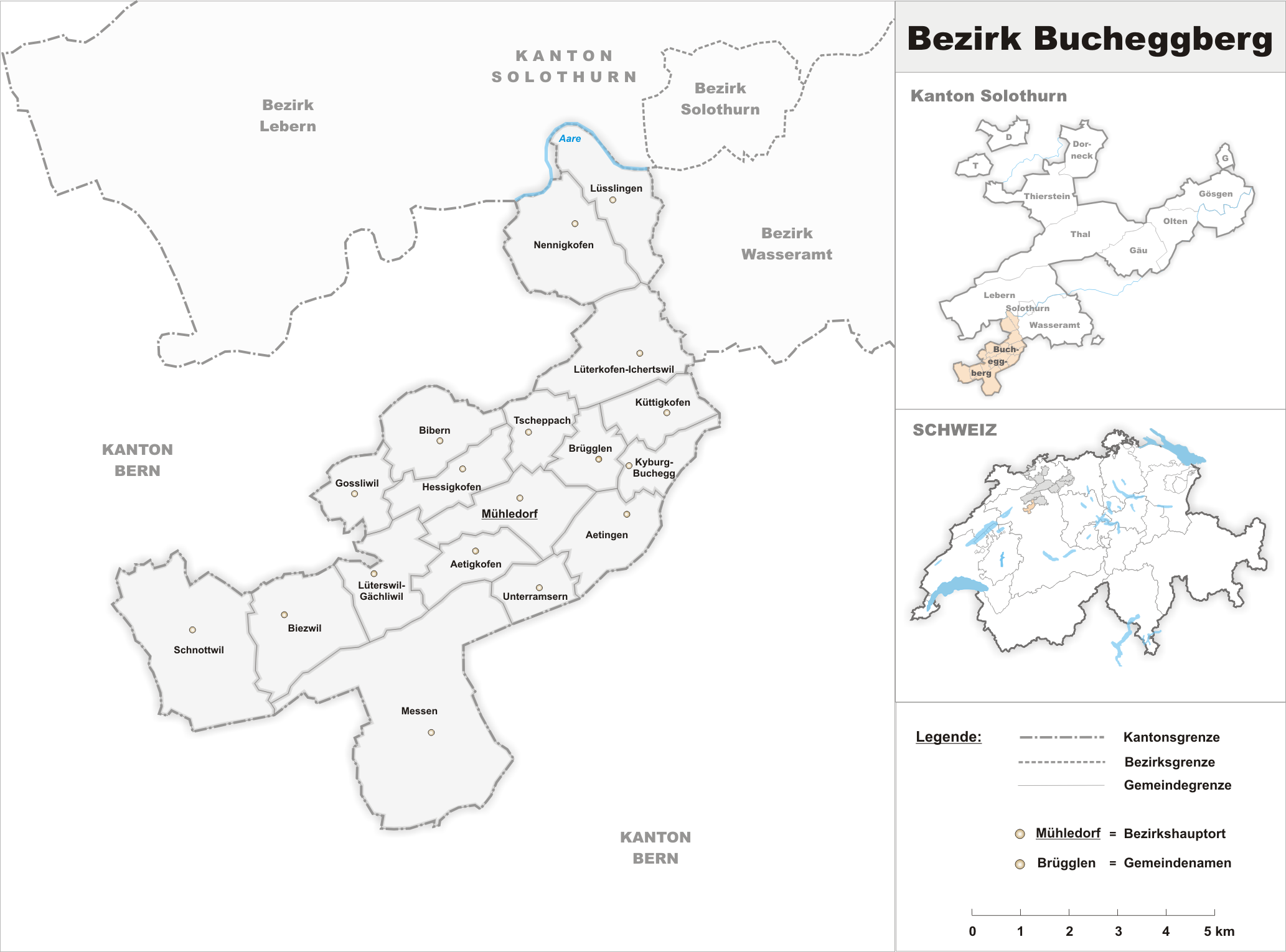 Municipalities in the district of Bucheggberg